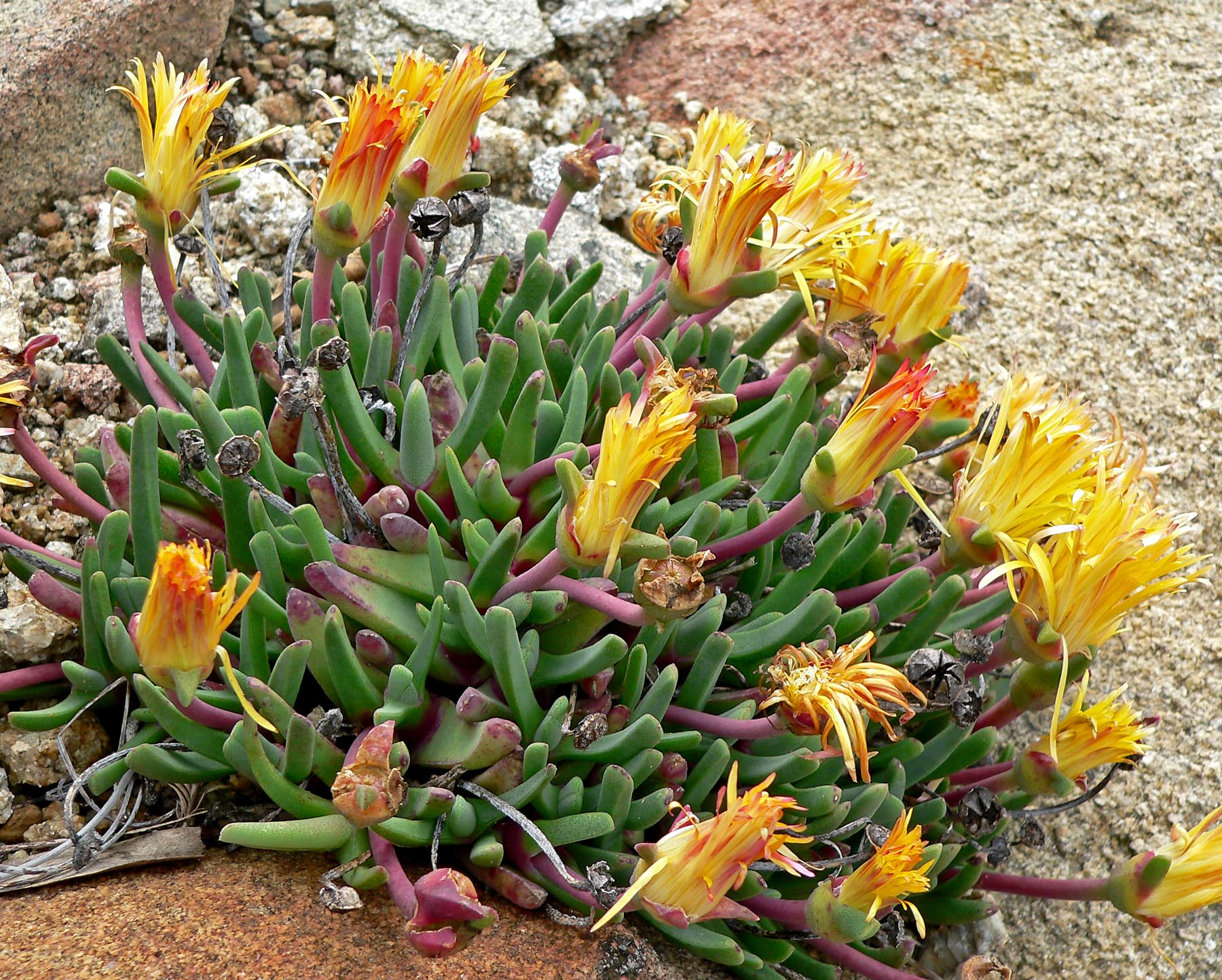 Photo of Bijlia tugwelliae at the University of California Botanical Garden